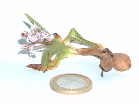 Botanical preparation of Orchis lactea Poiret, collected in Sardinia on March 17, 2007. The small size, compared to a one-Euro coin, and the two tuberoids typical of the Orchis genus are highlighted. Photograph by Laura Morelli ceded to the public domain by the author.